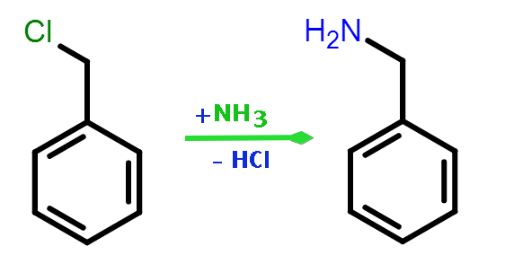 Benzylamine synthesis from benzyl chloride